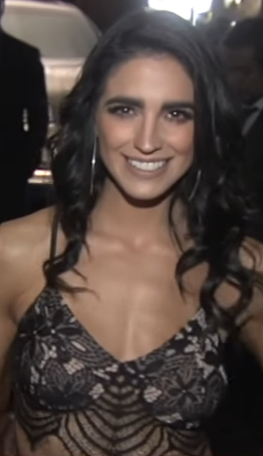 Bárbara de Regil on February 2017